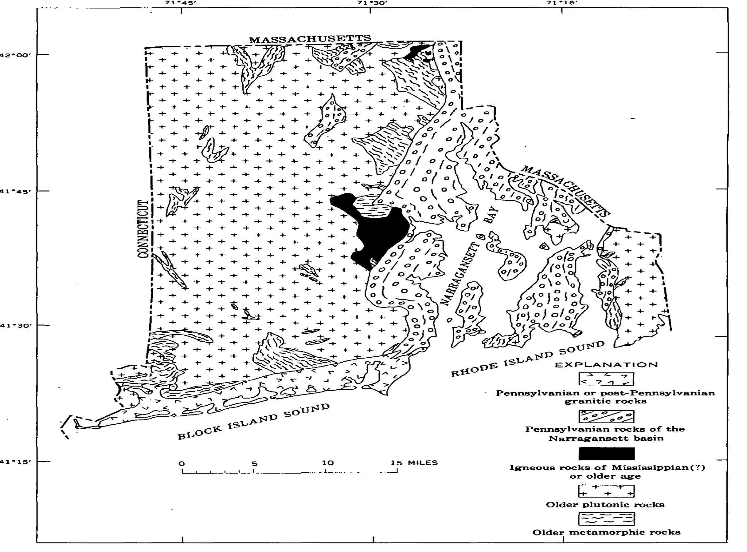 This is a simplified map of the bedrock map of geology from a USGS publication in 1971.